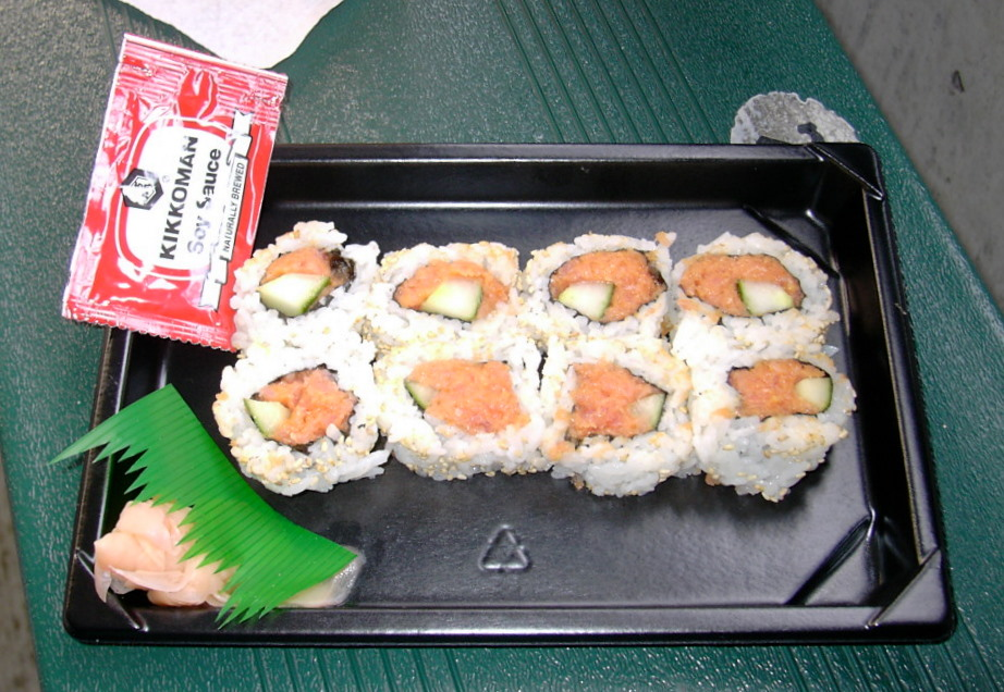 "Ichiroll" Named after Japanese Baseball player Ichiro Suzuki